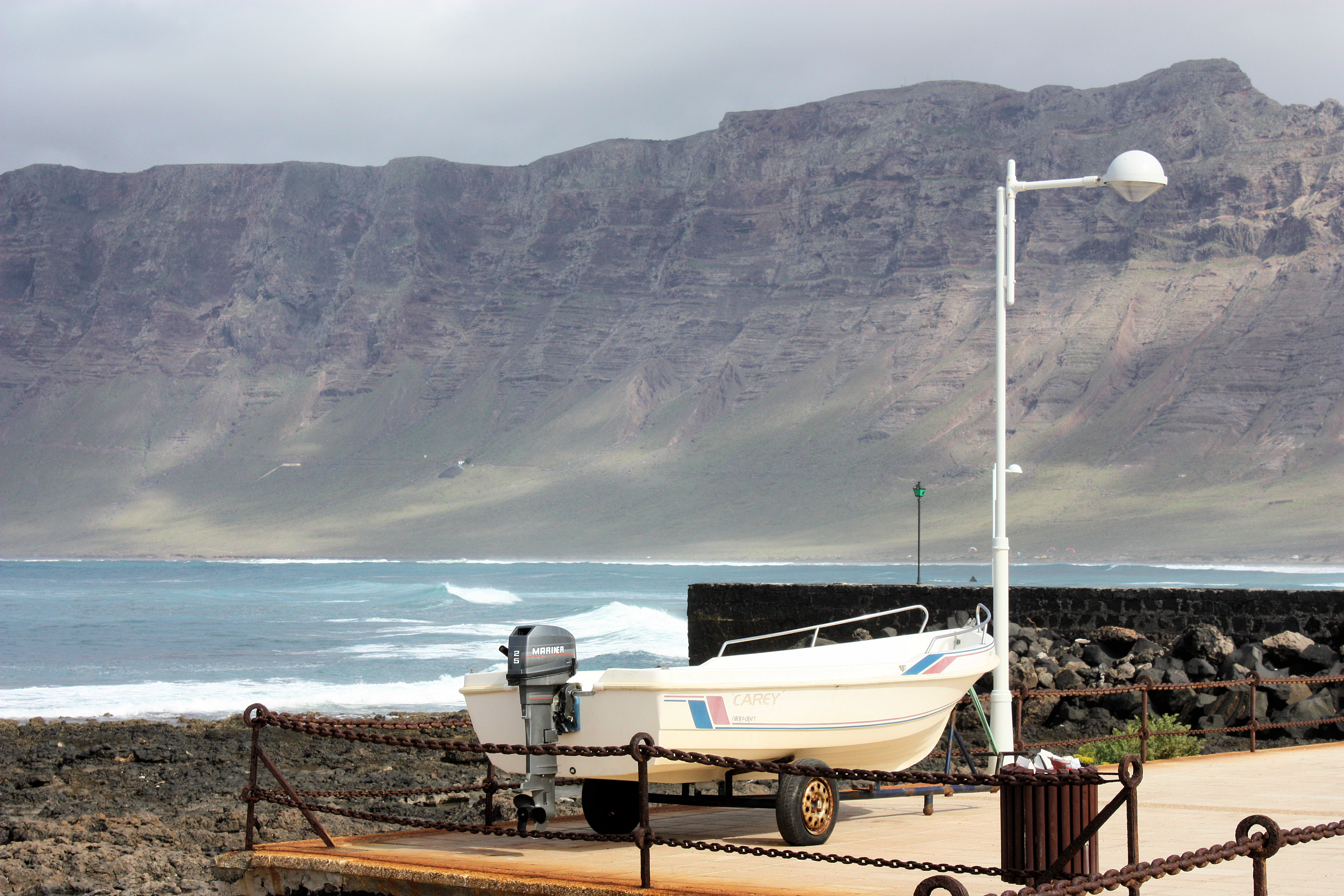 La Caleta de Famara (Teguise), the haven